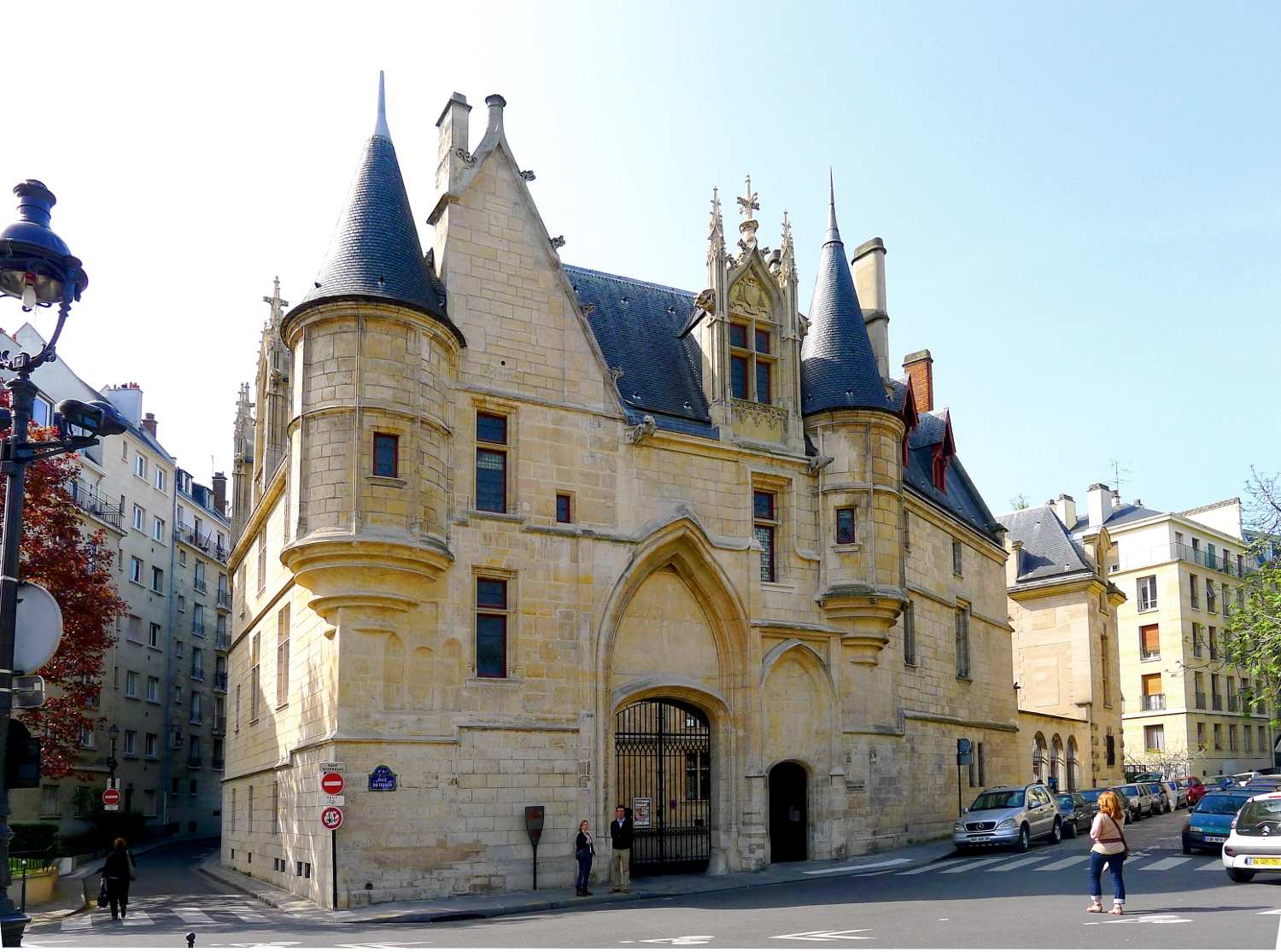 Hôtel de Sens - Paris